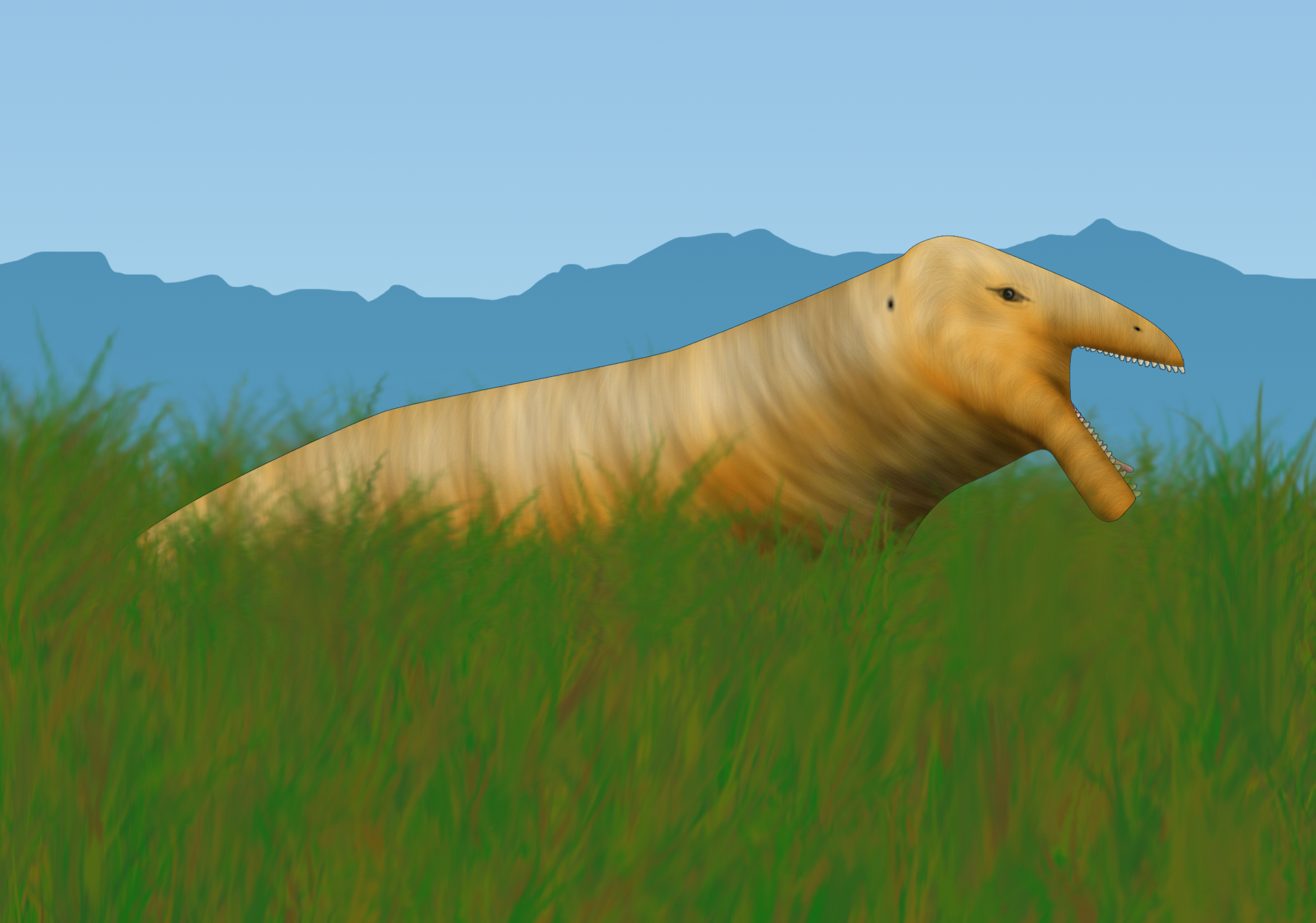 Life restoration of Riebeekosaurus longirostris